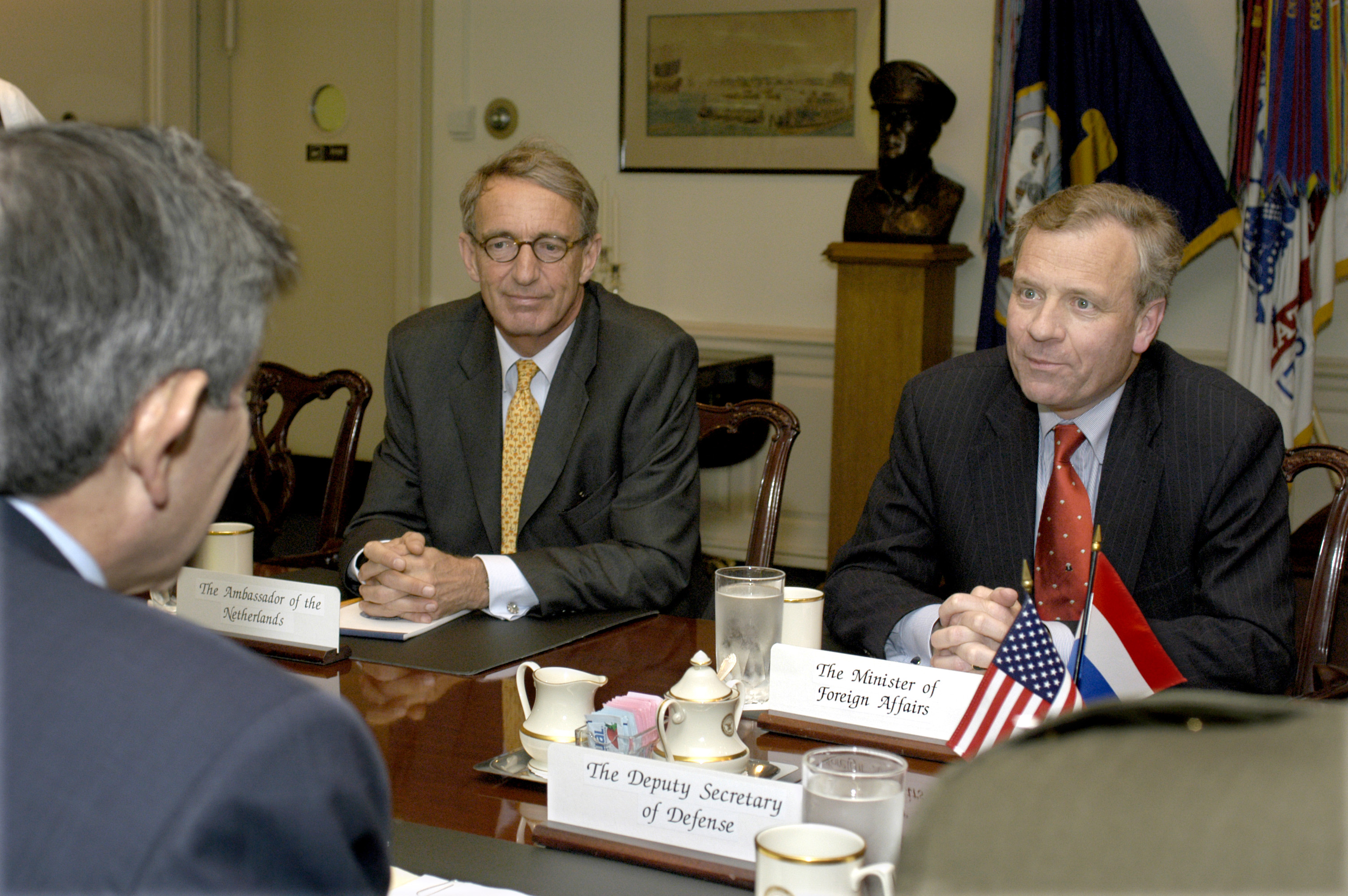 Netherlands's Minister of Foreign Affairs Jaap de Hoop Scheffer (right) meets with Deputy Secretary of Defense Paul Wolfowitz (foreground) in the Pentagon on May 1, 2003. Scheffer and Wolfowitz, along with Netherlands's Ambassador to the United States Boudewijn van Eenennaam (center) are meeting to discuss bilateral security issues of interest to both nations.